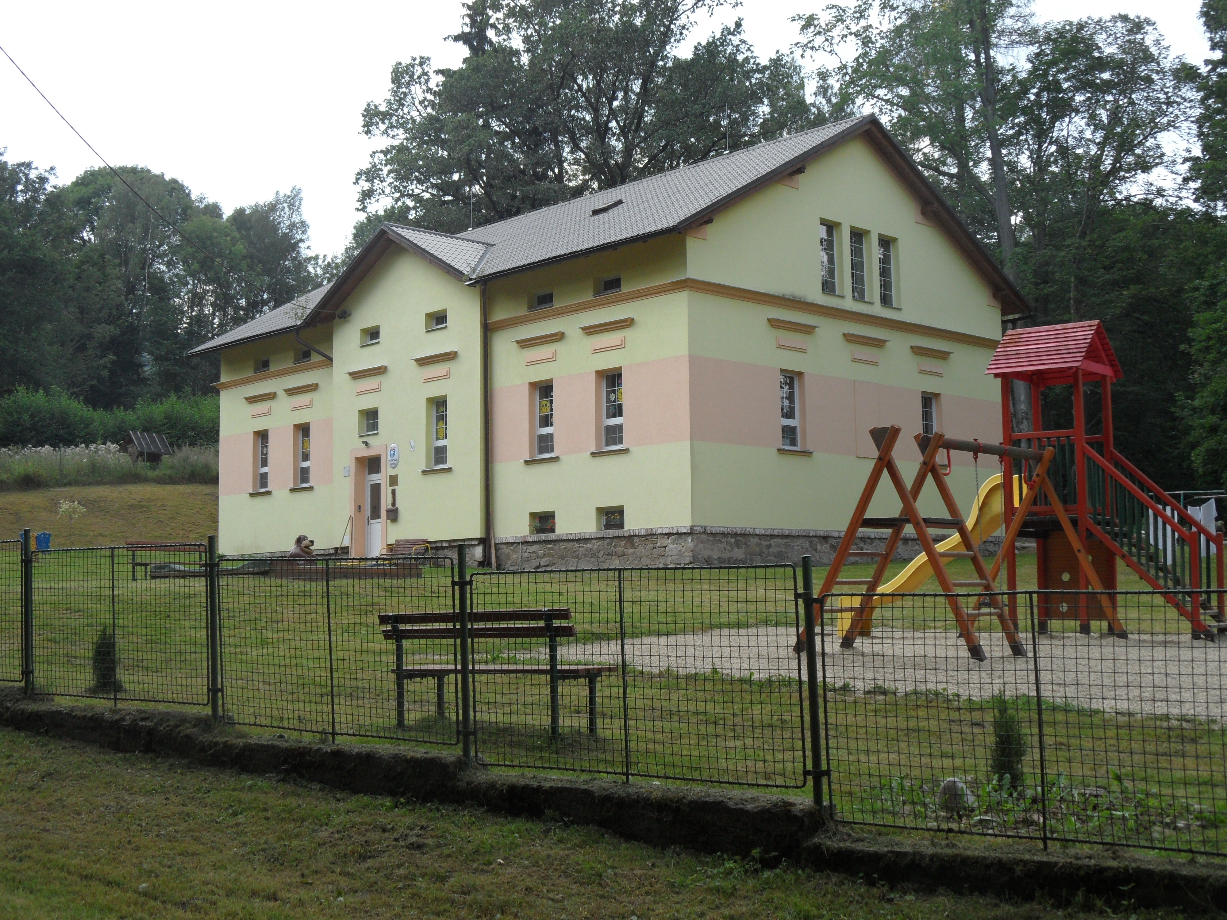 Vysoký Potok: Kindergarten. Šumperk District, the Czech Republic.